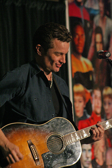 James Marsters at Grand Slam, April 2007